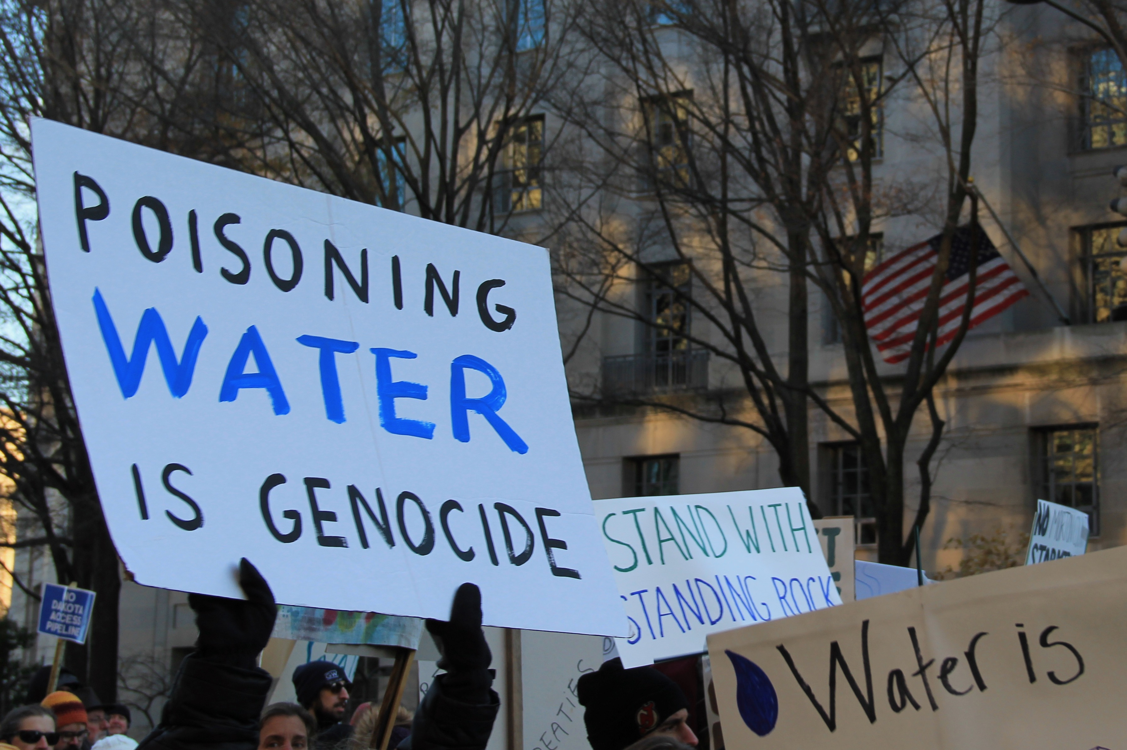 Beyond NoDAPL March on Washington, DC. Signs say "Poisoning water is genocide" and "Stand with Standing Rock".